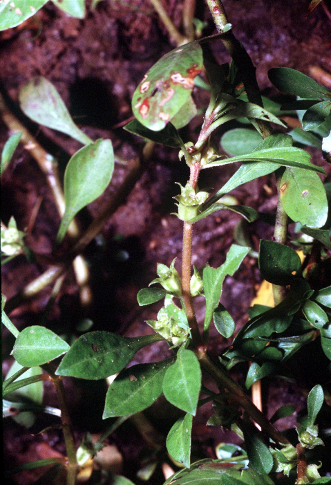 Ludwigia palustris